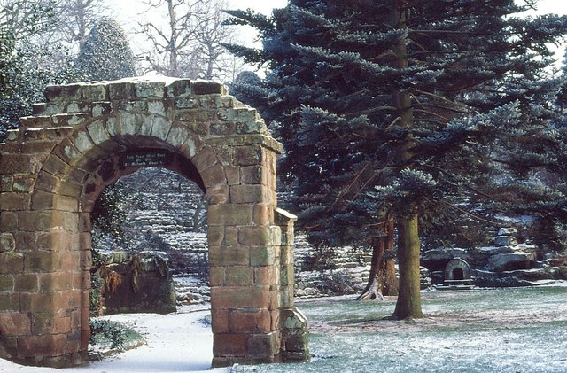 Arch of the former parish church of St Michael in Grosvenor Park, Chester, Cheshire, England, in snow